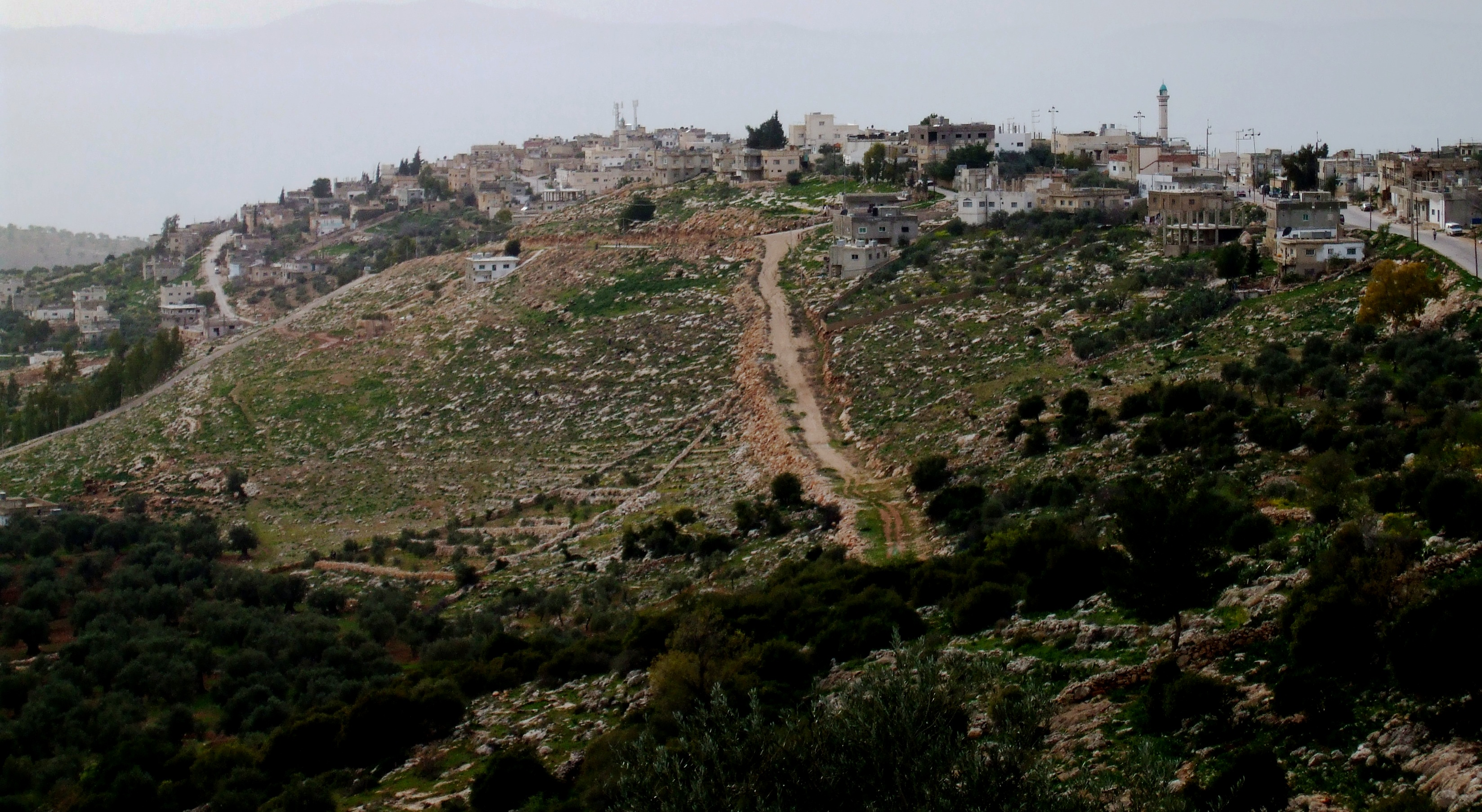 This is the skyline of the village Hashmieh, Ajloun in the Ajloun Governorate of Jordan